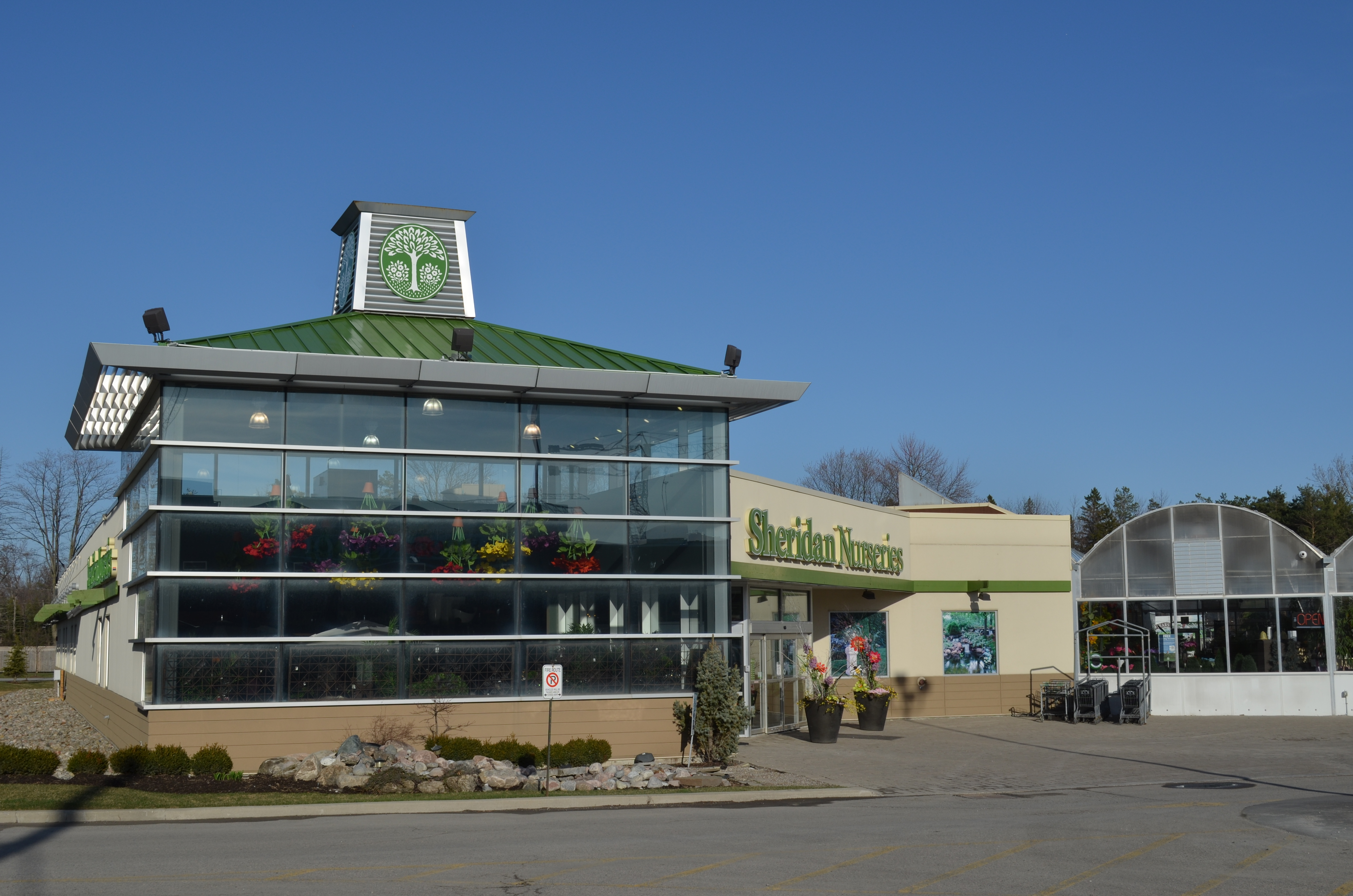 Sheridan Nurseries - 4077 Highway 7, Markham